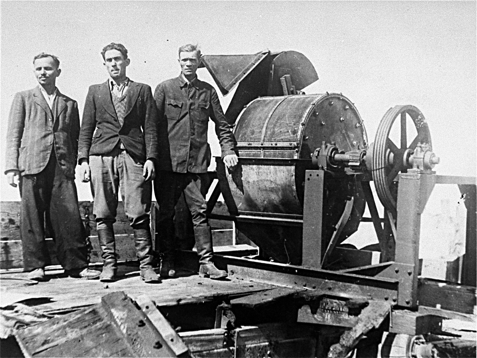 Former members of the Sonderkommando 1005 unit pose next to a bone crushing machine in the Janowska concentration camp in a photo taken by the Soviet war crimes investigation team called officially the "Extraordinary State Commission for ascertaining and investigating crimes perpetrated by the German–Fascist invaders and their accomplices". Soviet prosecutor Colonel Lev Smirnov testified in regards to the bone crushing before the Nuremberg Trials in February 1946 and submitted photos of the machines. According to Smirnov, "over 200 000 Soviet citizens" were murdered at Janowska. A bone crusher from Janowska and other items such as a bar of soap made from human fat and gloves of human skin produced in the camps can be seen in the Museum of the Great Patriotic War in Kiev Pictured from left to right are: unknown, David Manusevitz, and Moses Korn. This photograph ws taken soon after liberation for the Extraordinary Commission or the Red Army.